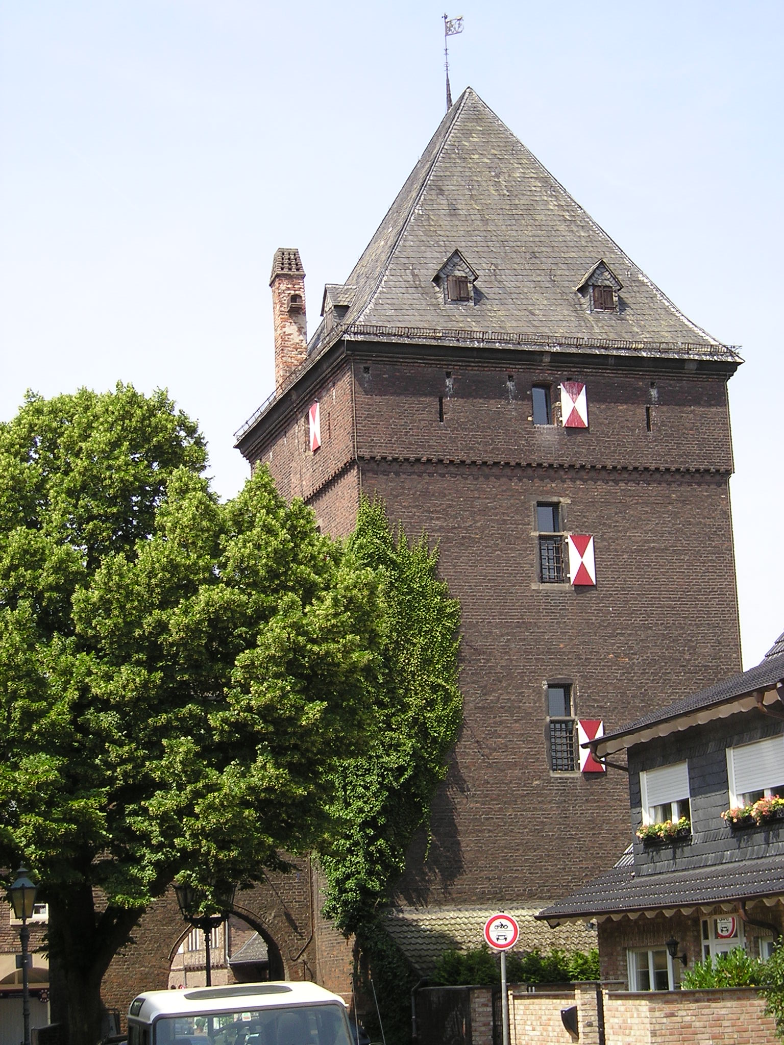 own photo